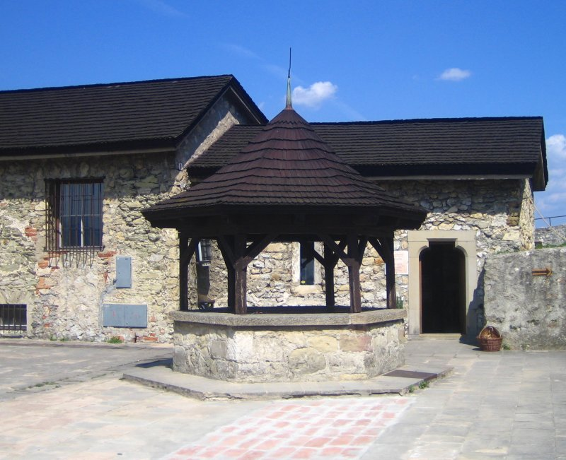 Well of Love — water well head in Trenčín Castle in Slovakia.